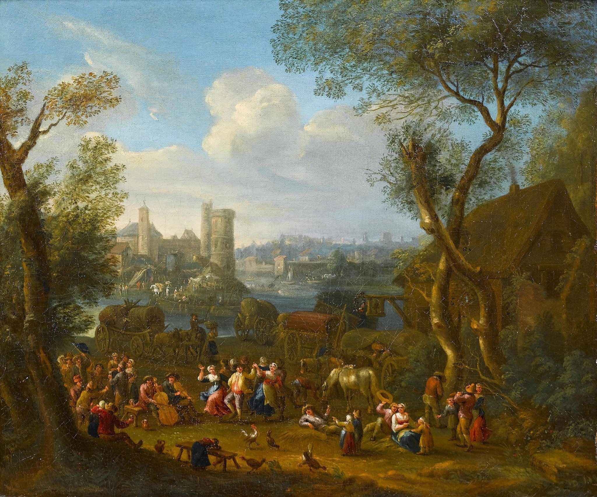 Travellers on a Country Path, a Mountainous Landscape beyond, oil on canvas, 39.6 x 47.5 cm, private collection (signed Elizabeth Seldron)